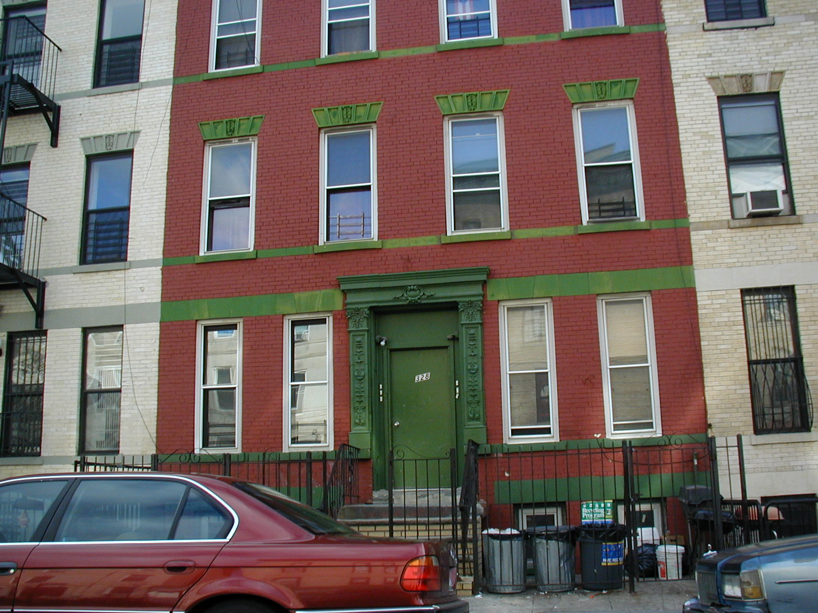 The Television Home of the "Honeymooners" - The Honeymooners was a situation comedy show during the 1950's and 1960's on USA television. The show began in 1952 on the DuMont Television Network and after a short run, changed networks to CBS Television Network. The show's stars were Jackie Gleason and Art Carney